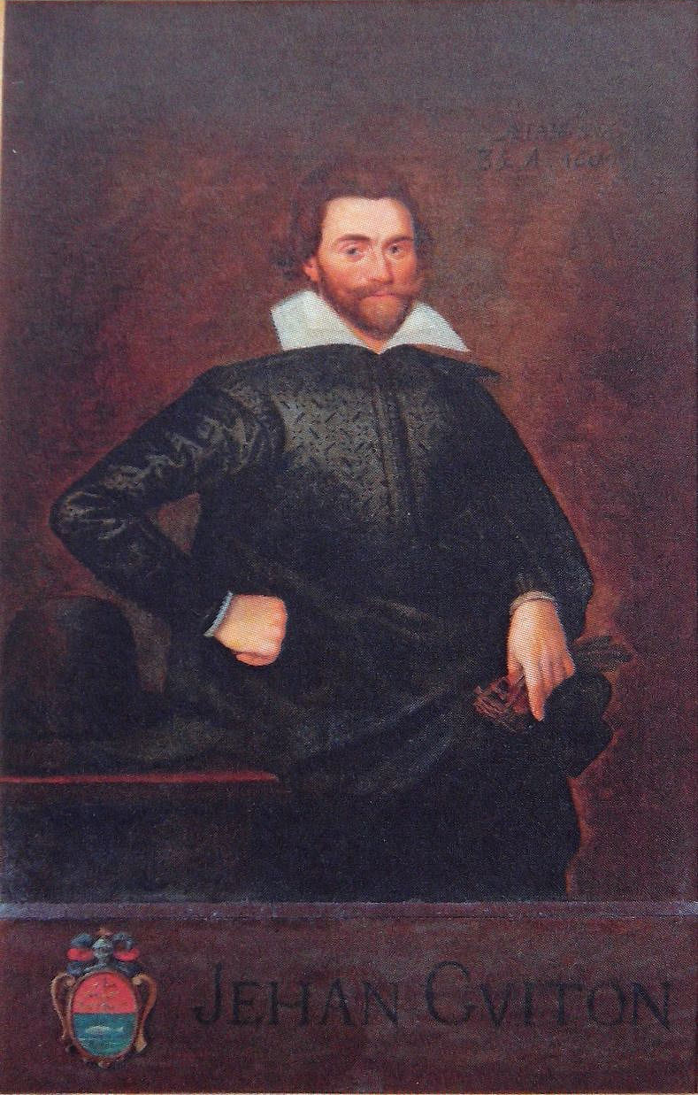 Jehan_Guitton